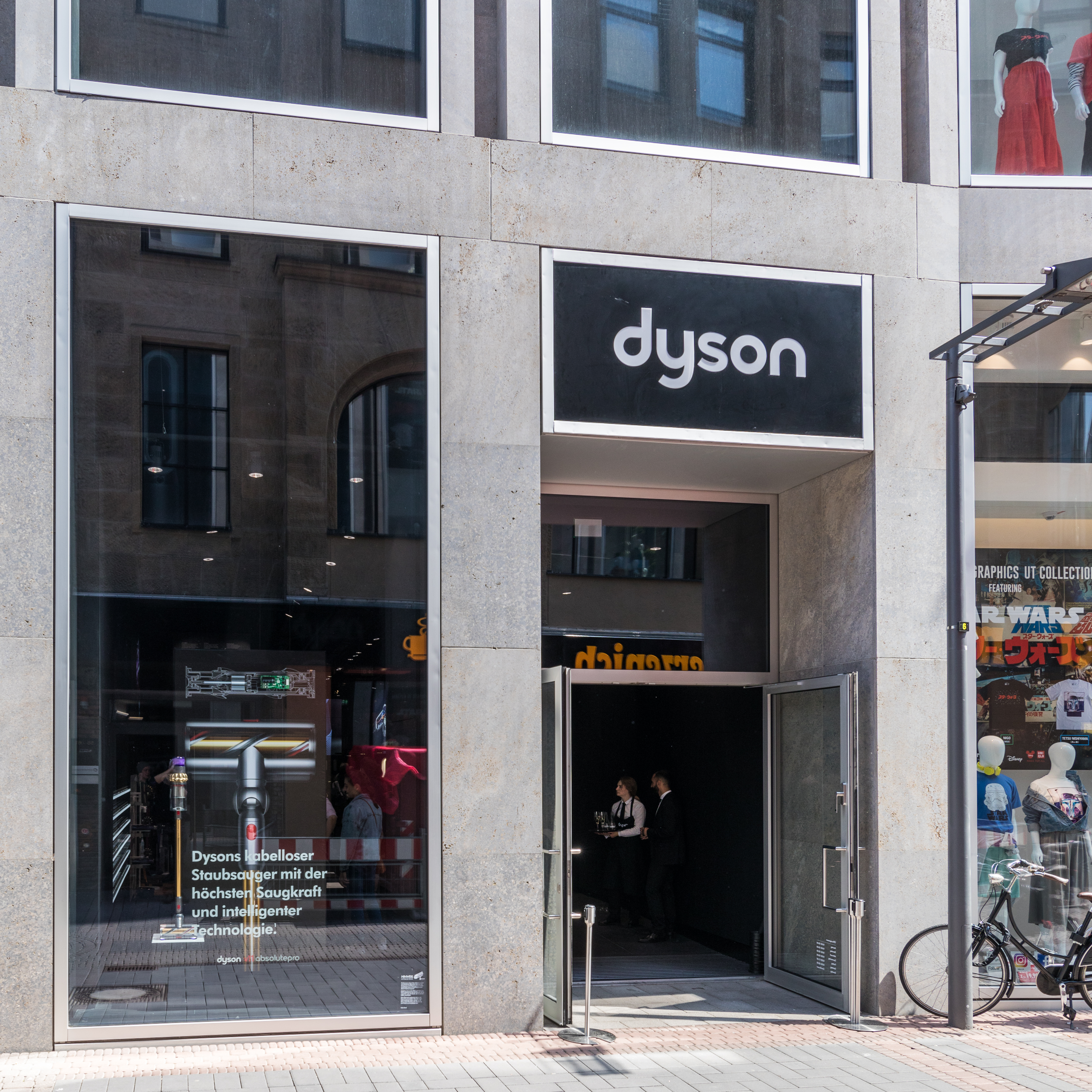 Dyson shop. Hohe Straße 52, Cologne